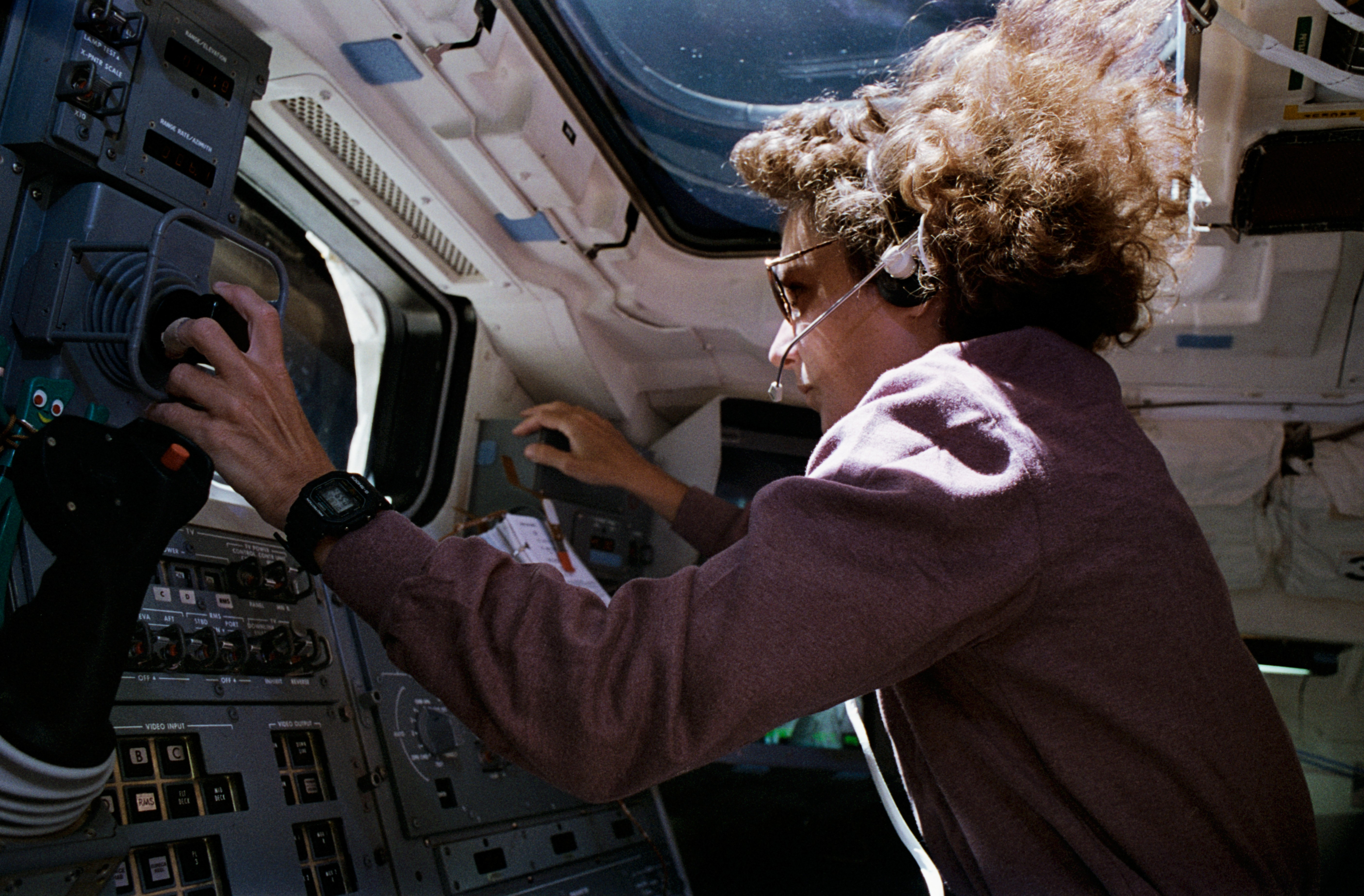 Mission Specialist Nancy Sherlock operates the remote manipulator system while observing extravehicular activity outside viewing window on the aft flight deck. Positioned at the onorbit station, Sherlock moved EVA astronauts in the payload bay.